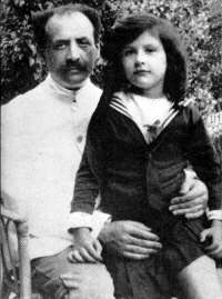 Simone Weil (1909–1943) – a French philosopher, Christian mystic and political activist of Jewish origin. With her father.